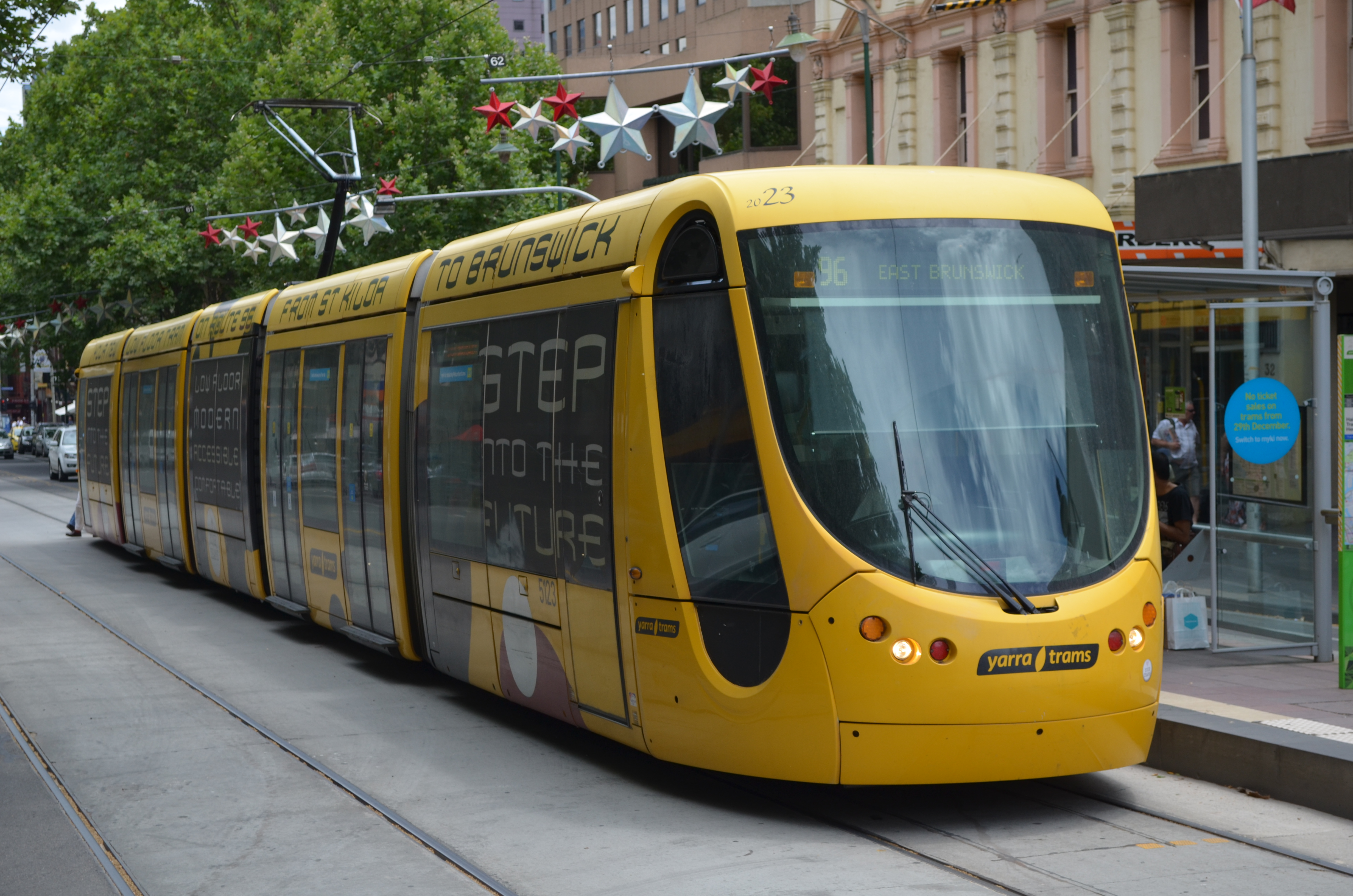 C2 class Citadis tram no 5123 at the Spring Street stop at the east end of Bourke Street with a route 96 service from St Kilda Beach to East Brunswick in Melbourne, Australia. This particular tram was the first of its class to enter service in Melbourne.